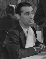 Alfredo Fornaresio